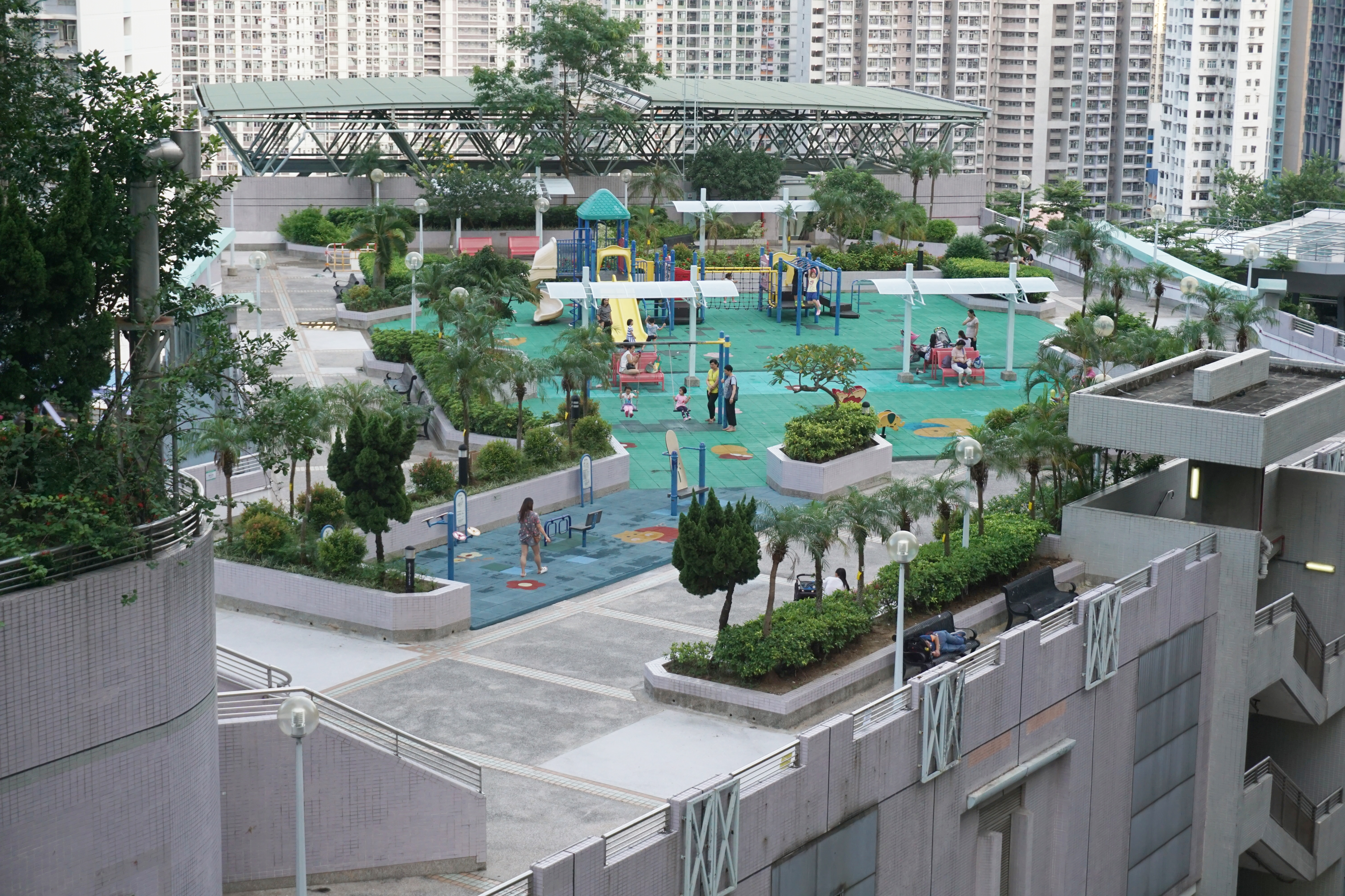 Kwai Shing East Estate in Kwai Shing, Hong Kong.